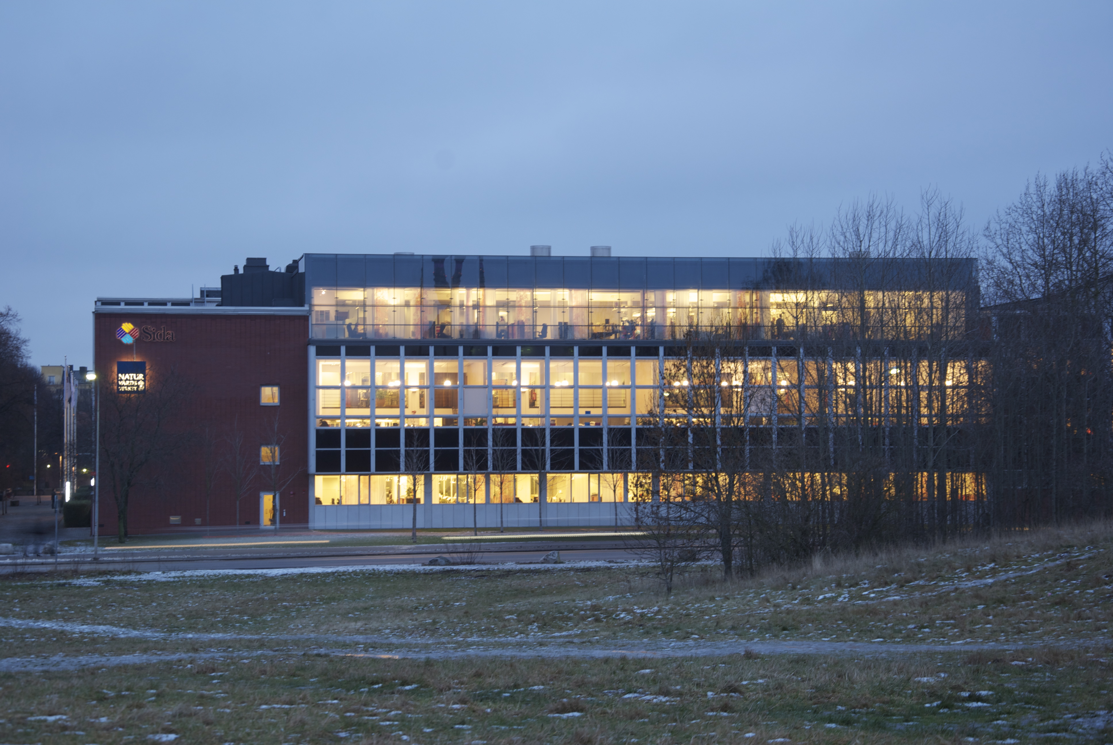 the former Konstfack building.